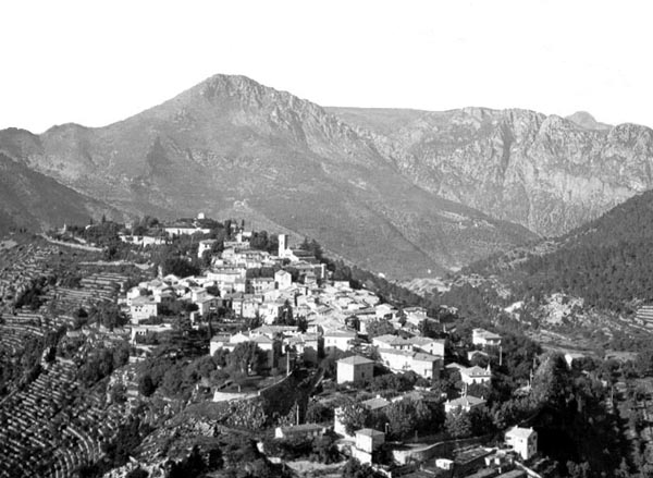 Village seen from south